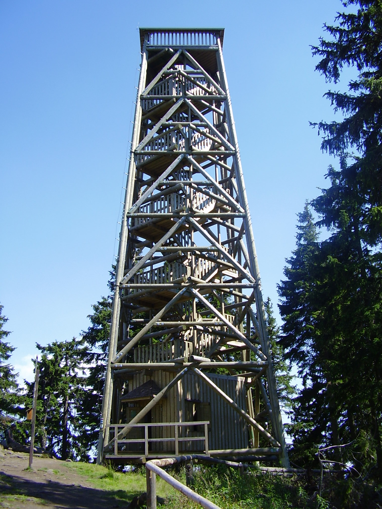 Observation tower Boubin